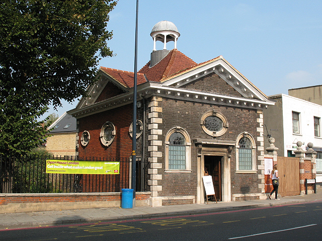 Boone's Chapel: front Boone's Chapel wasa private chapel built c.1682, probably to the designs of Robert Hooke (a pupil of Wren), for Christopher and Mary Boone, who were eventually buried there. It was restored by the Blackheath Historic Buildings Trust in 2004-2008 and is now open on Open House Weekend and a few other occasions each year. This is the frontage of the chapel seen from across Lee High Road.